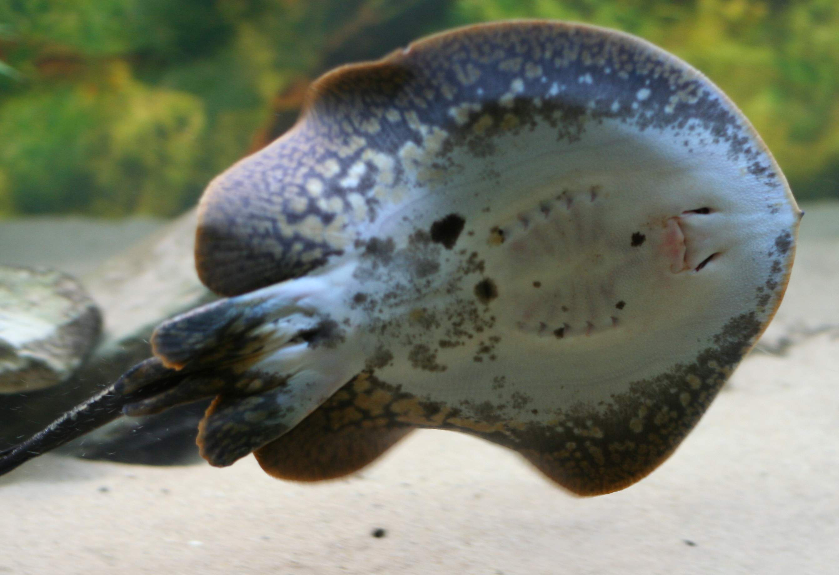 Underside of an Amazon River ray (Plesiotrygon iwamae), in the Buffalo Zoo